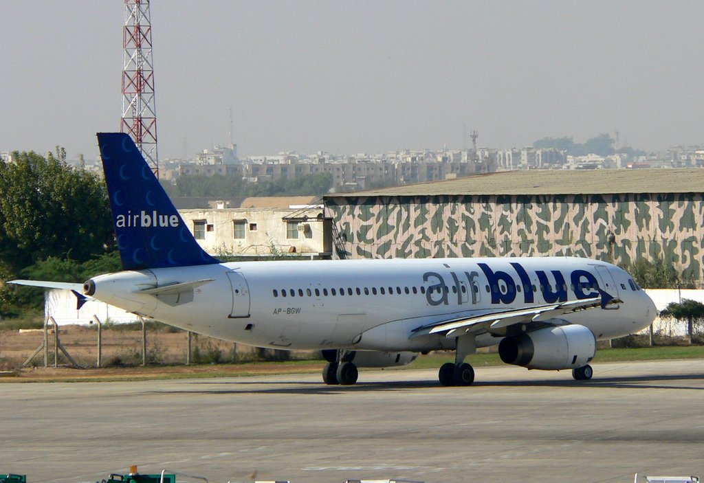 An Airblue A320 commercial plane is ready to depart Jinnah International Airport (formerly known as Quaid-e-Azam International Airport) in Karachi, Pakistan. Image by Waqas Usman. More images at and